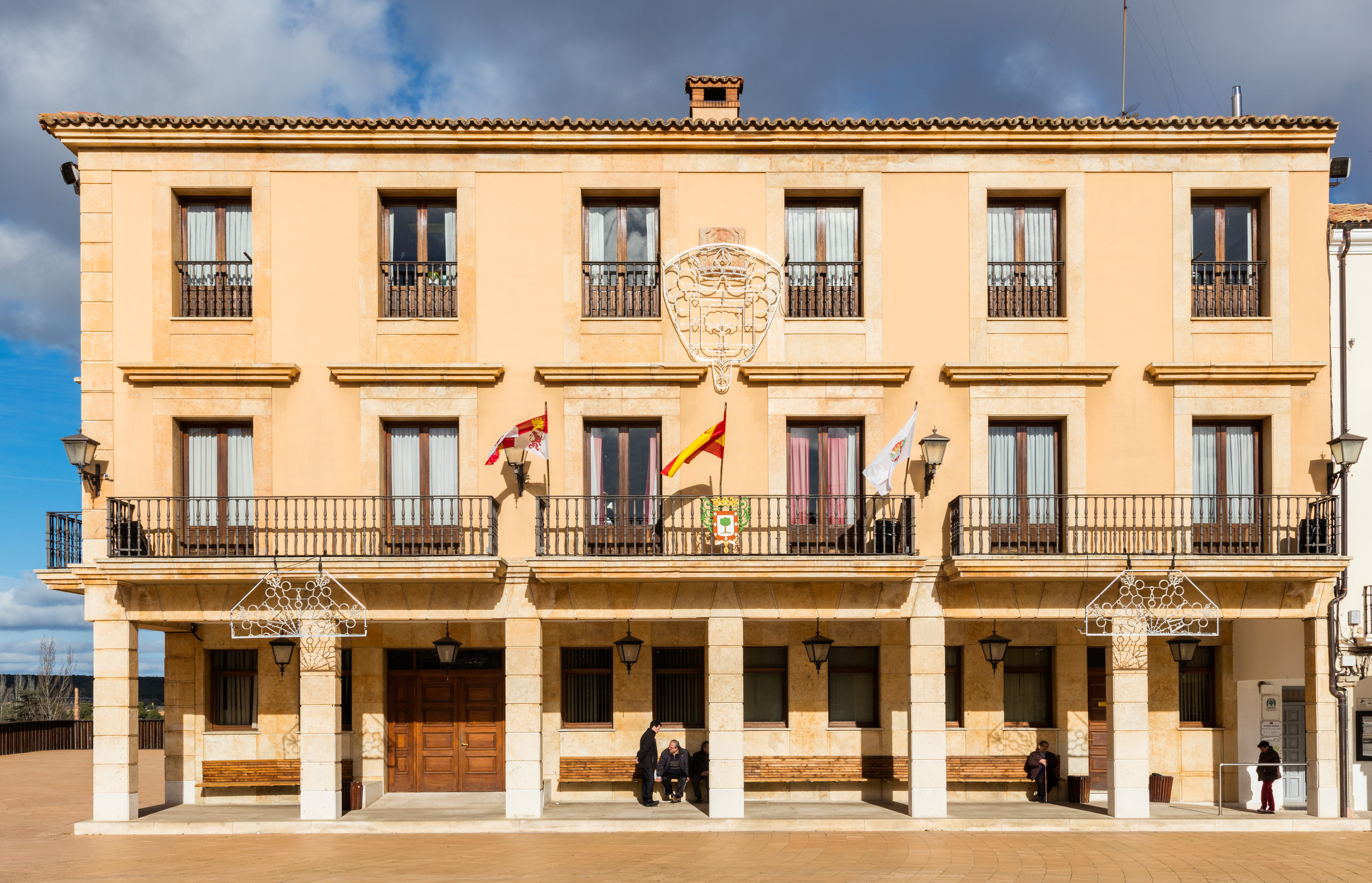 Town hall, Almazán, Soria, Spain